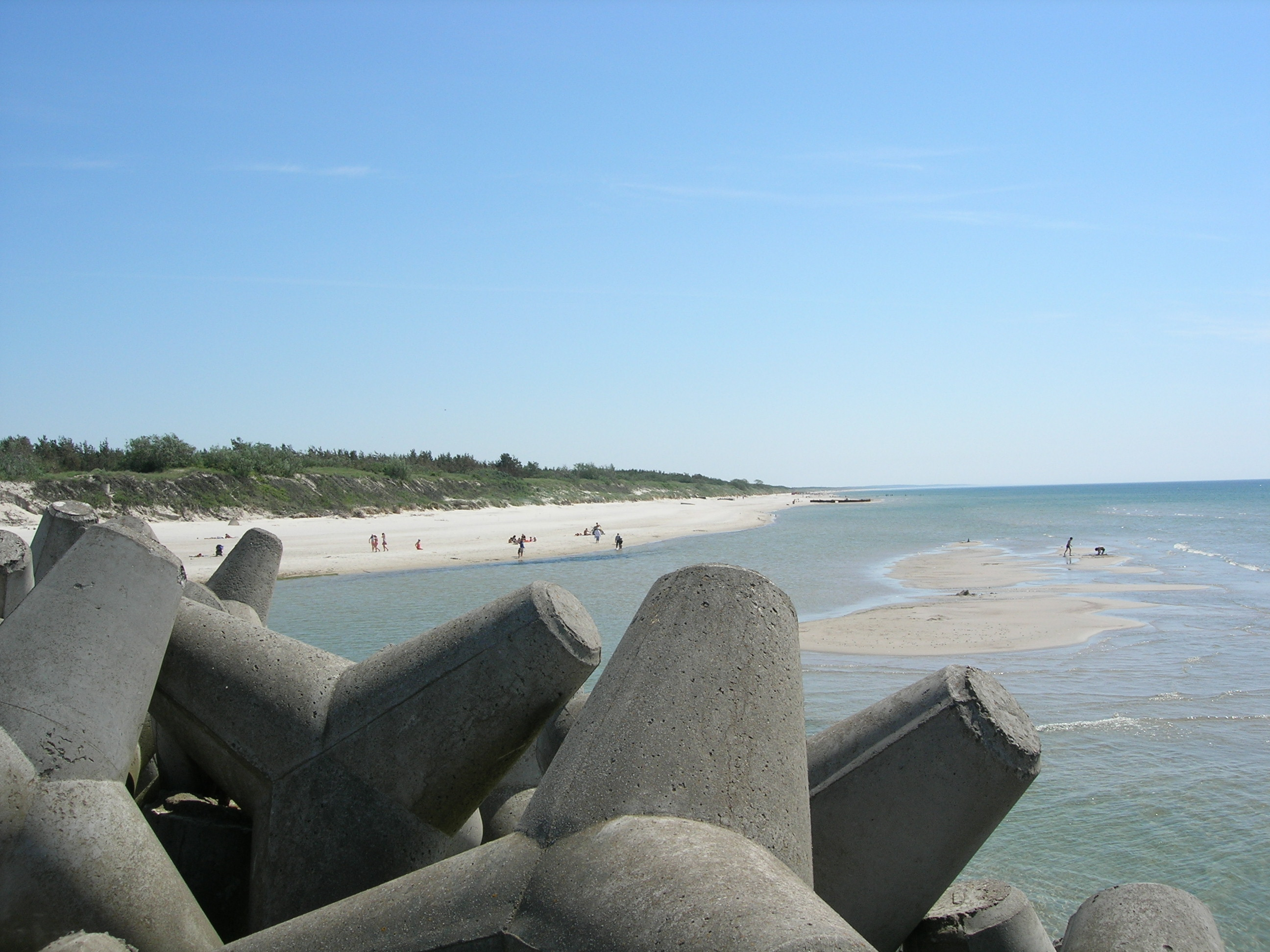 The beach of Smiltynė